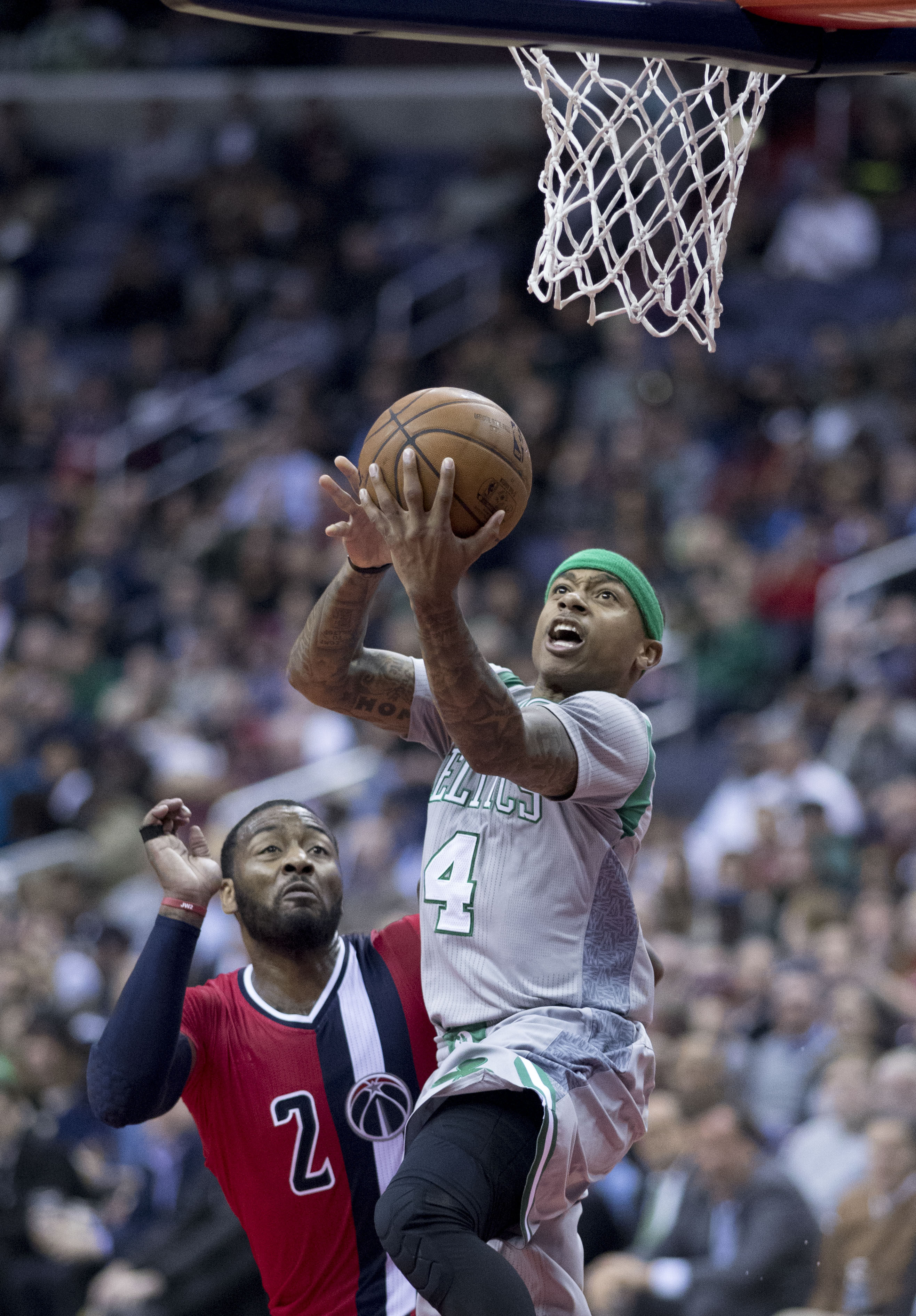 Celtics at Wizards 1/24/17